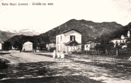 Gaiola, tramway station